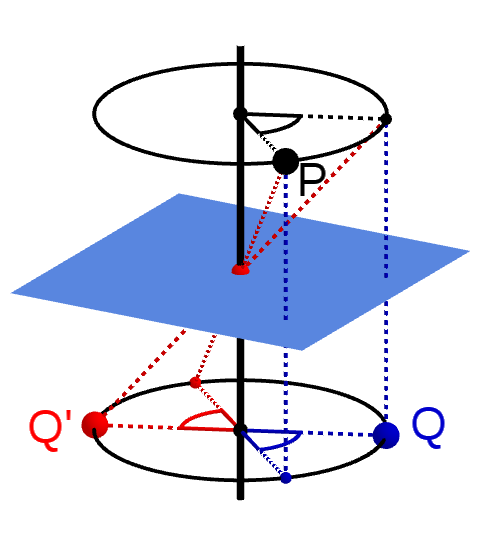 Rotoreflection and rotoinversion of a point